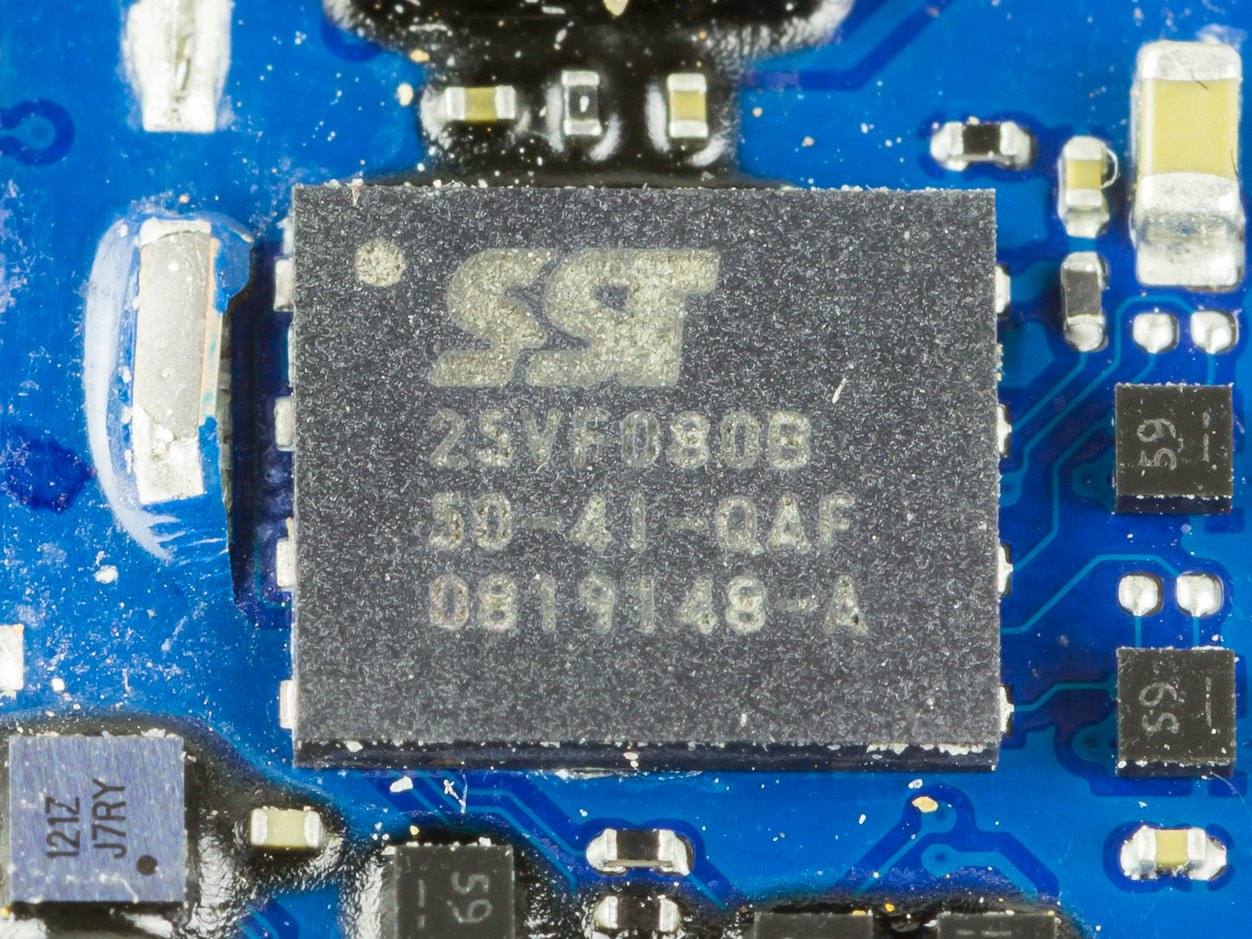 IPhone 3G teardown - Silicon Storage Tech SST25VF080B - 8 Mbit SPI Serial Flash